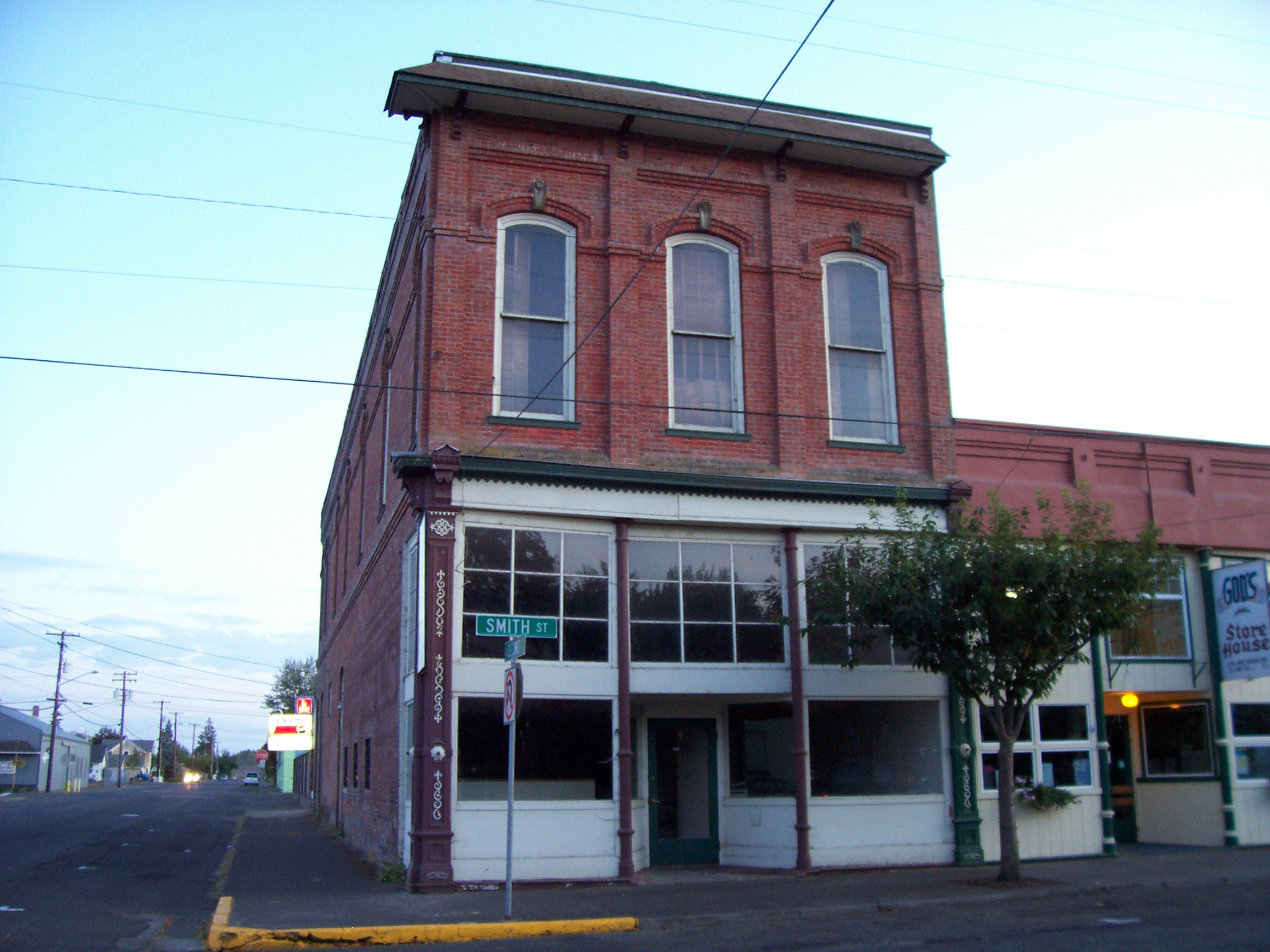 Harrisburg Odd Fellows Hall in Harrisburg, Oregon. Listed on the National Register of Historic Places.